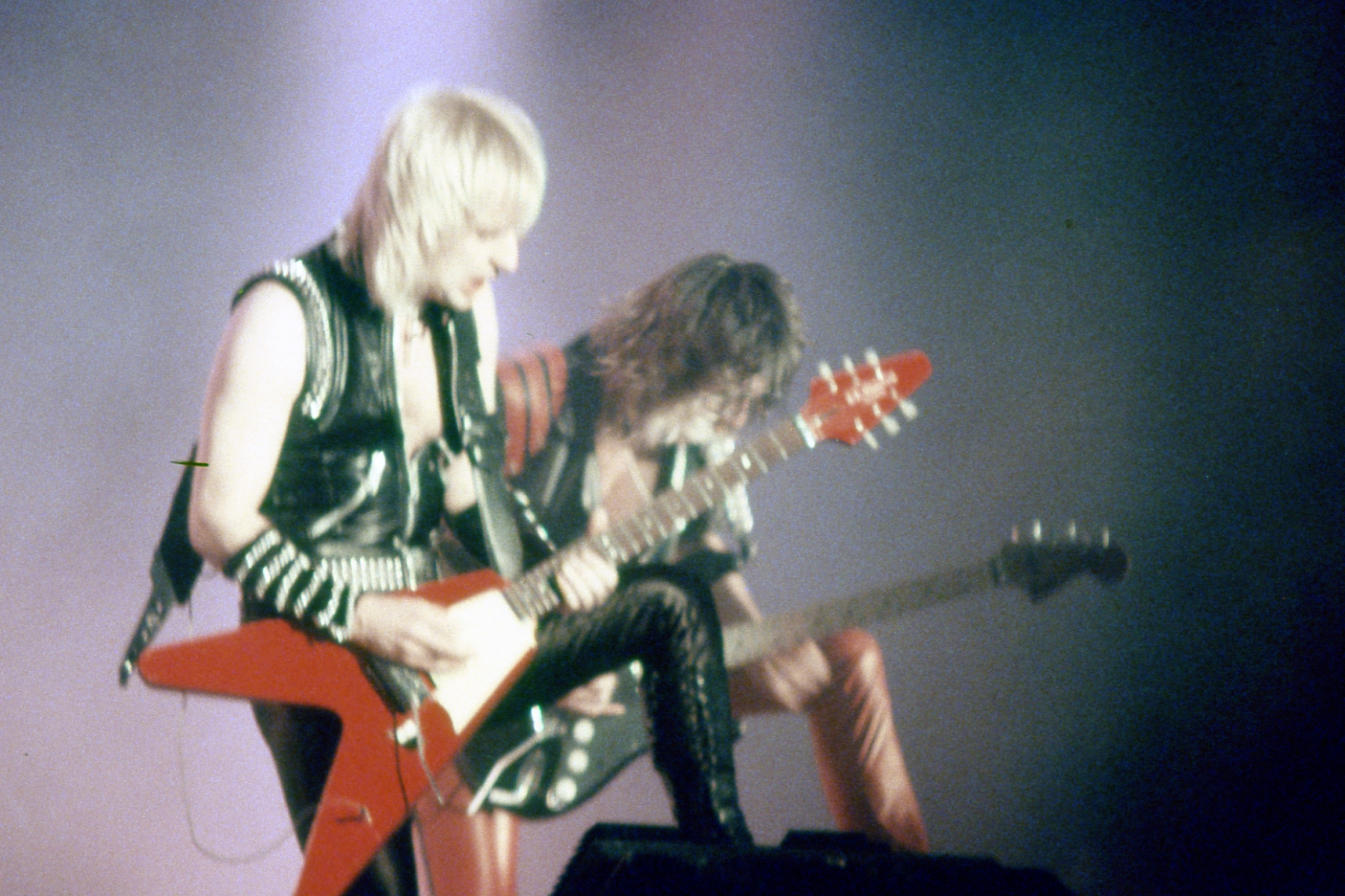 K.K. Downing and Glenn Tipton, of Judas Priest, performing athe Velódromo de Anoeta in San Sebastián, Spain, in 1984